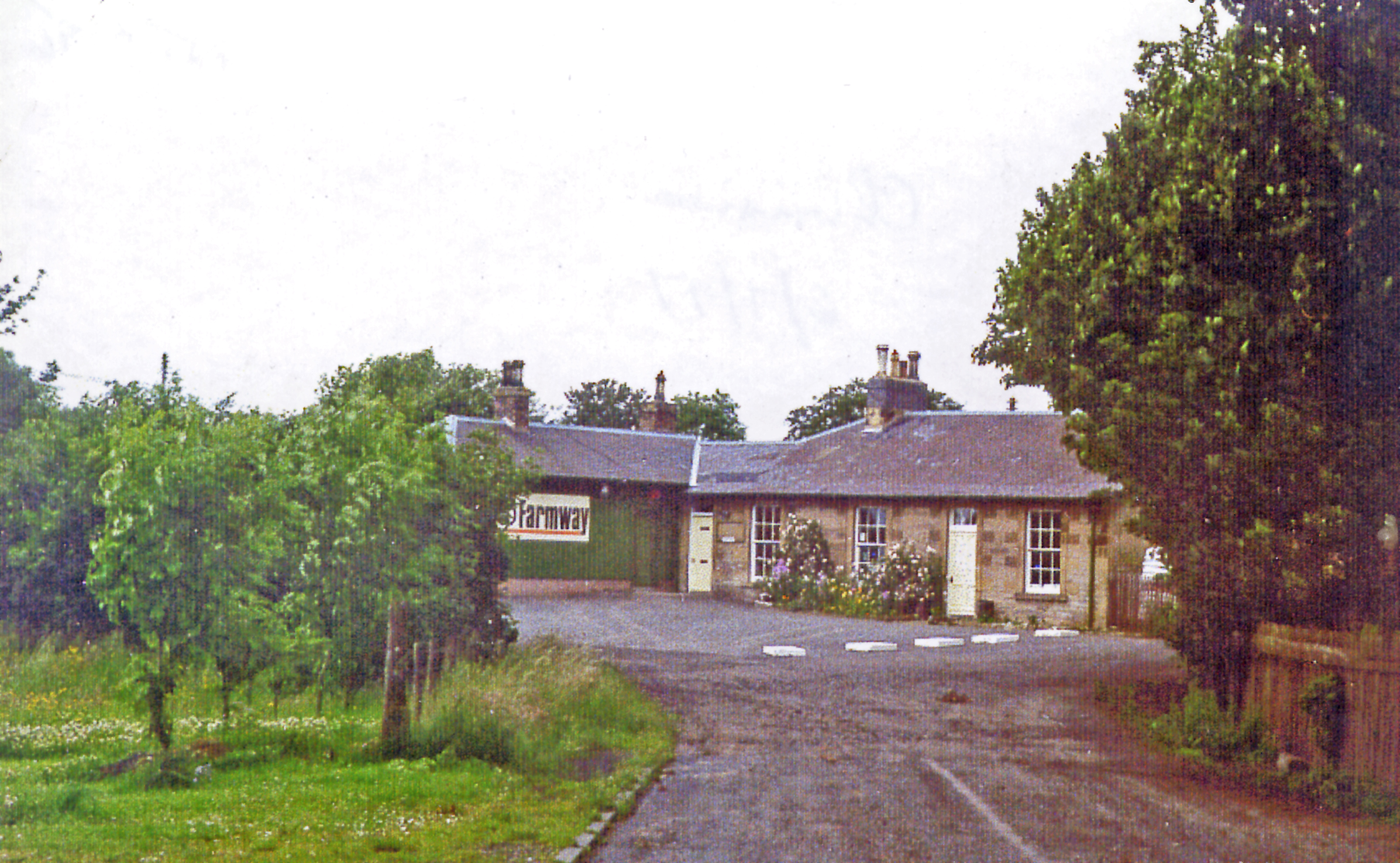 Former Chirnside station. View NE, towards Reston: ex-NBR Reston - Duns - Greenlaw - Earlston - St Boswells line. After the great floods of 12/8/48, the middle section of this line (Duns - Earlston) had been abandoned and from 10/9/51 Reston - Duns lost its passenger service and this station closed, but goods traffic continued until 7/11/66. Evidently long before 1997 the station became a private house